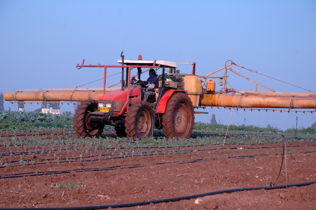 SAME Explorer tractor with a mounted field sprayer in Tsofit, Israel